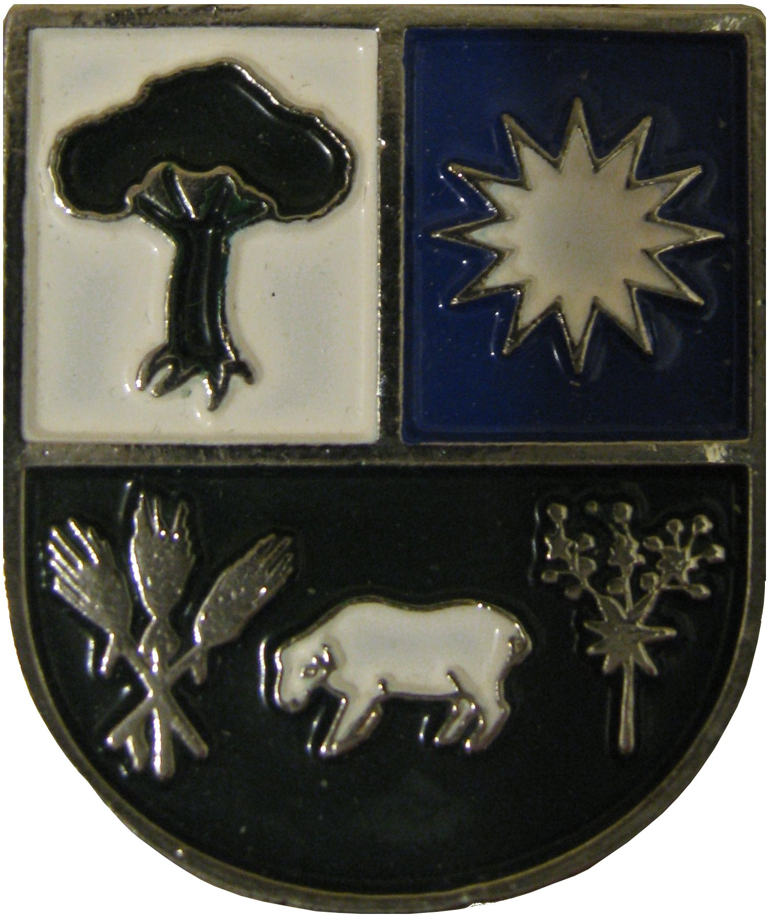 crest